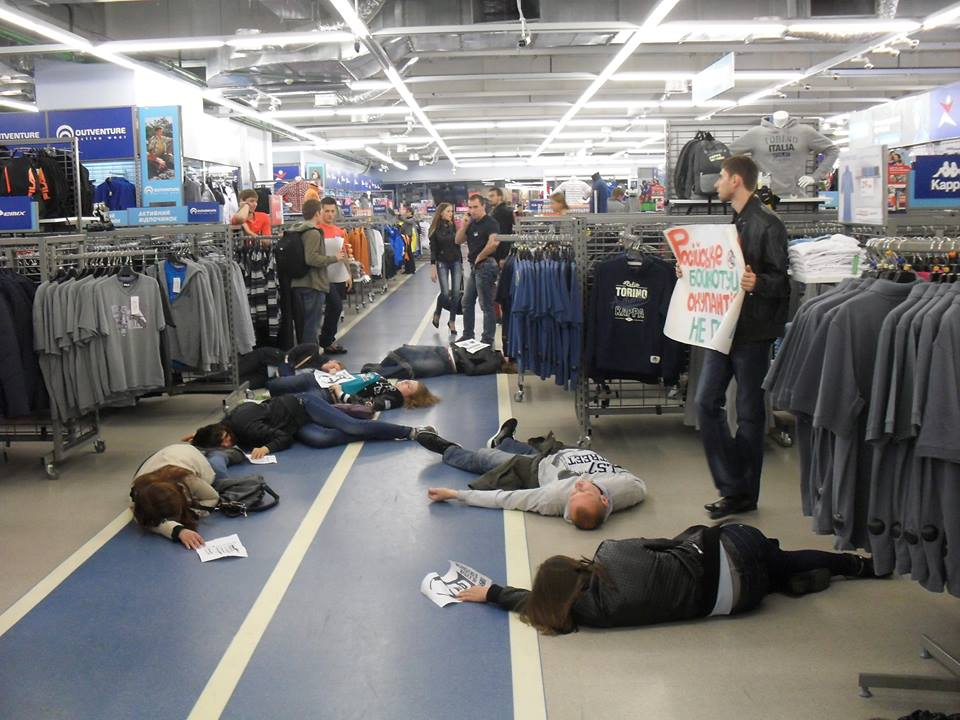 Flash mob in Russian clothing store "Sportmaster" in Kiev, "Do not buy Russian goods!" campaign. Picture made by activist of "Vidsich".